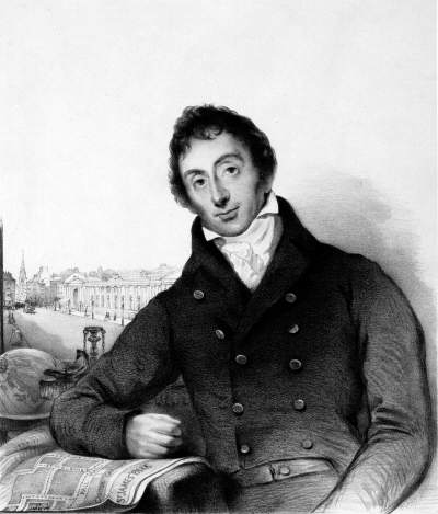 Lithograph made in 1830 by John Alfred Vinter (1828-1905) portrait of Frederick Albert Winsor